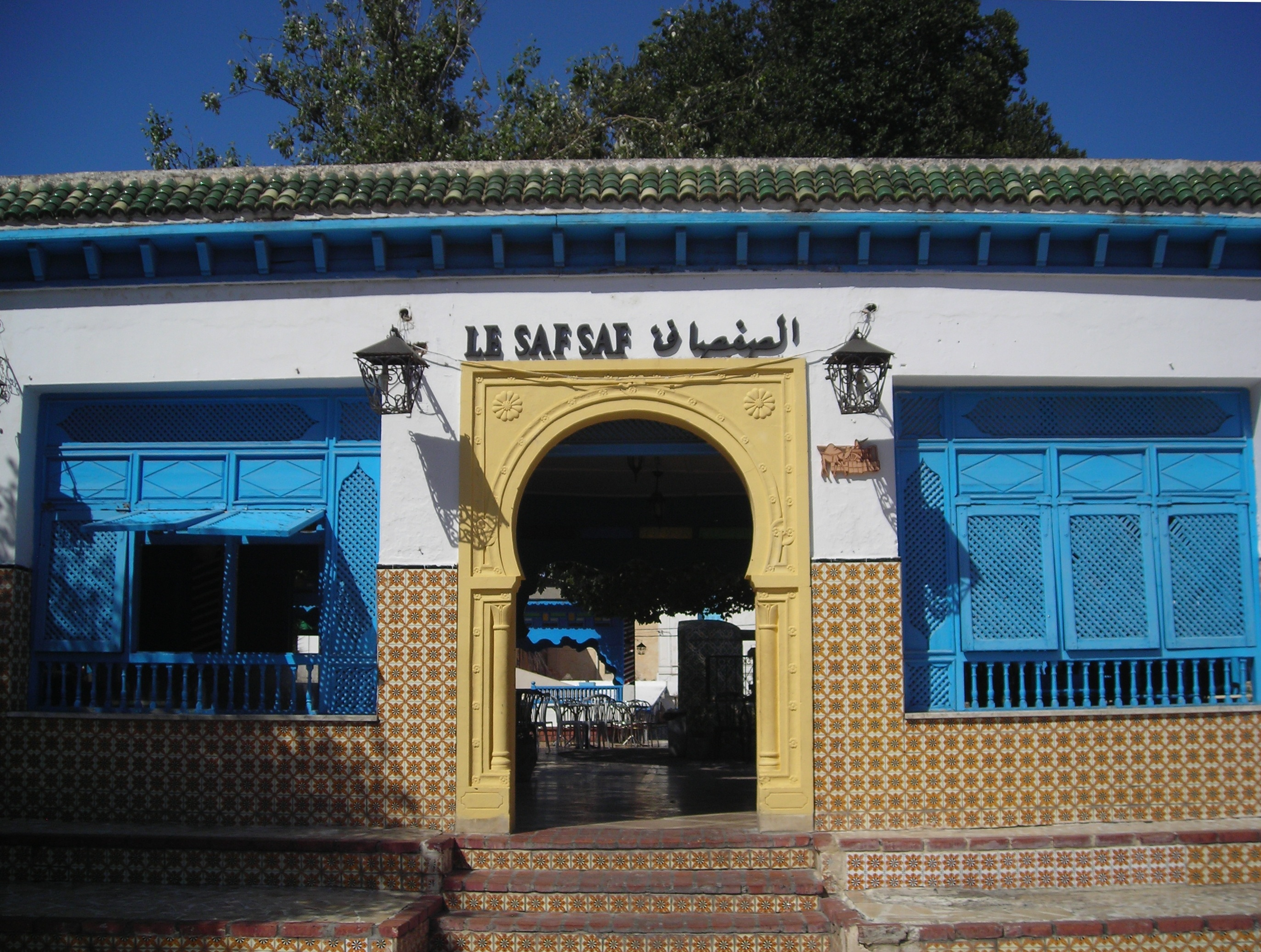 Safsaf Café in La Marsa